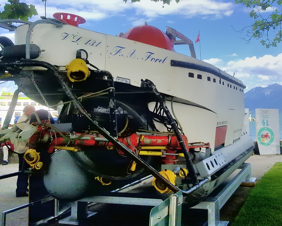 F.-A. Forel on display at Ouchy during the Elemo programme